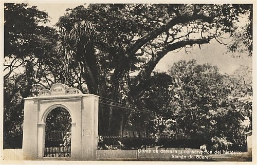 Postcard depicting photograph of the Samán de Güere Monument in the 1920s, Maracay, Venezuela.